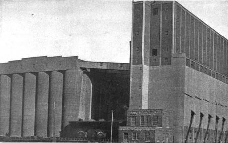 Canadian government terminal grain elevator at Port Arthur, Ontario, built under the supervision of future Minister C.D. Howe